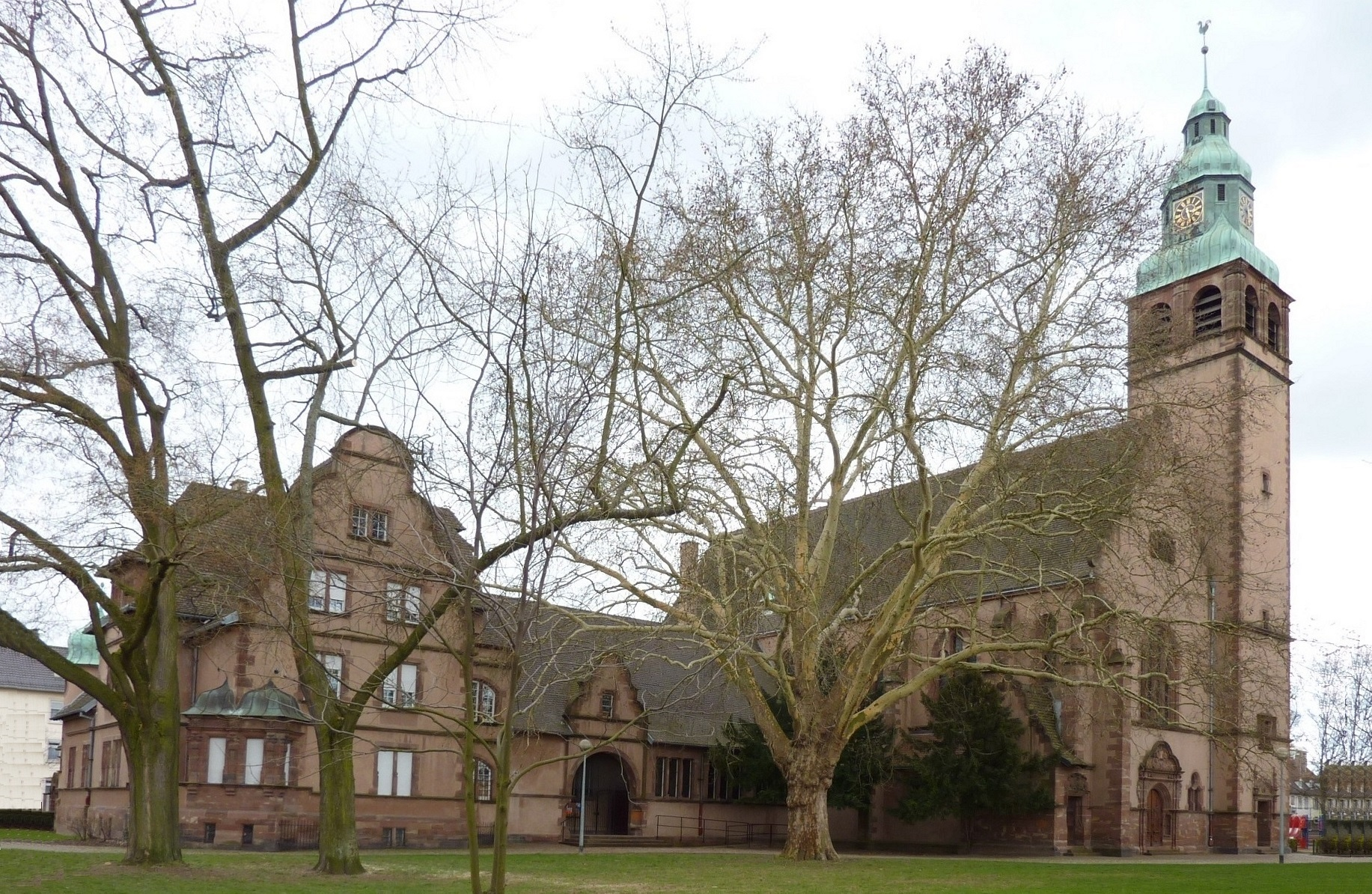 The Lutheran St. Saviour's Church in Strasbourg and its rectory